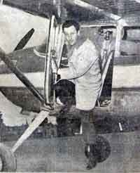 Miguel L. Fitzgerald (b. 1926), Irish-Argentine serial flyer to Falklands/Malvinas Islands in 1964, 1968